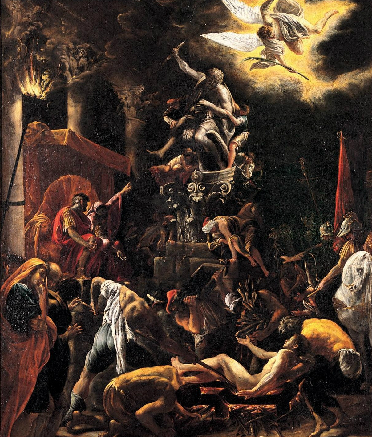 Martyrdom of Saint Lawrence